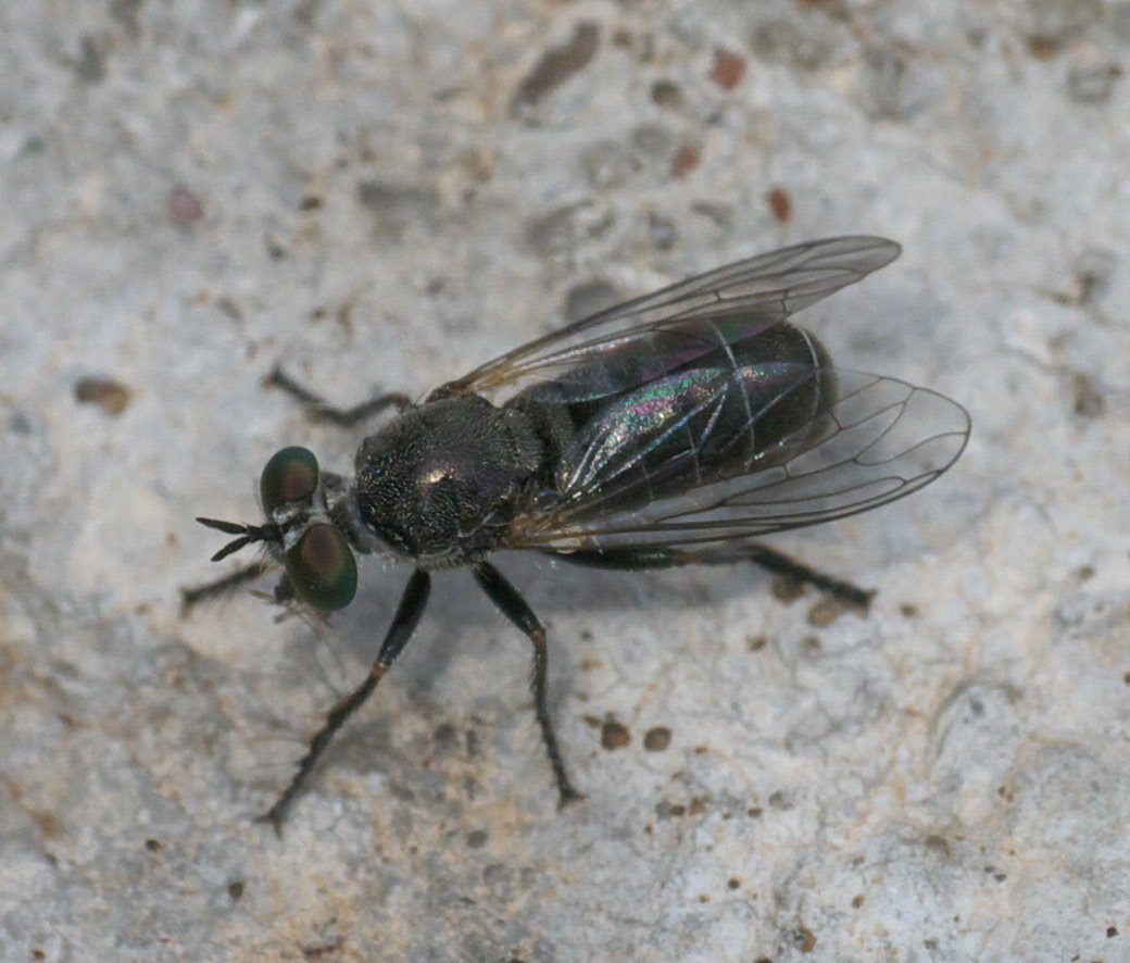 Atomosia melanopogon, Family: Robber Flies, If you look at the tip of the wings, towards the inside, you see two veins join together before they reach the margin. This positively identifies this Atomosia as Atomosia melanopogon." "Nice petiolate r5 cell, and black legs make this Atomosia melanopogon.", ID Confidence: 98"